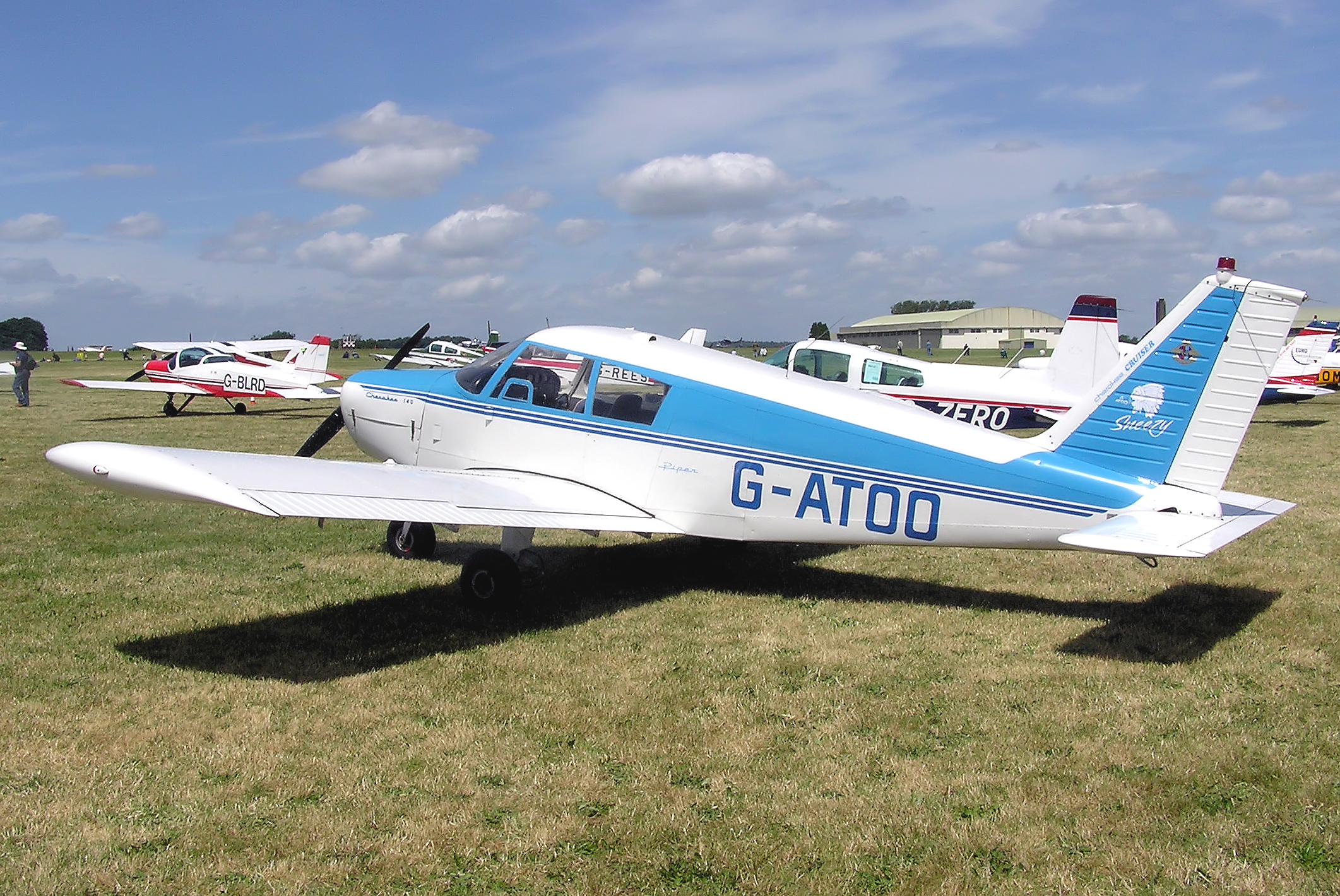 Piper PA-28-140 (G-ATOO) at a Popular Flying Association Rally at Kemble Airfield (now Kemble Airport), Gloucestershire, England.